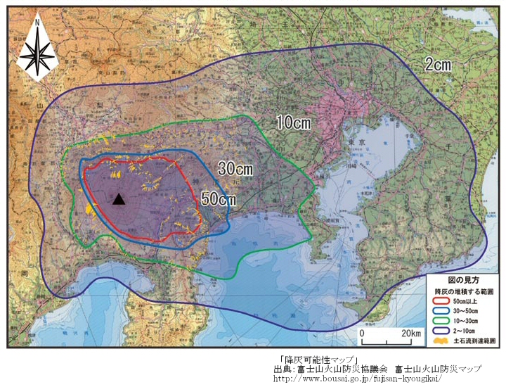 富士山降灰可能性図（The predicative map of the volcanic-ash-fall of Mt.Fuji)